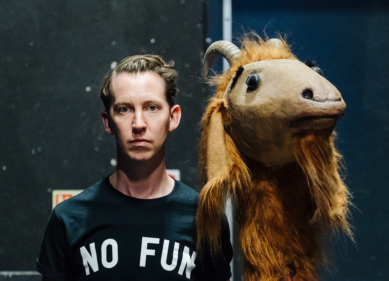 HQ photo of Mr Bingo by photographer Dan Rubin